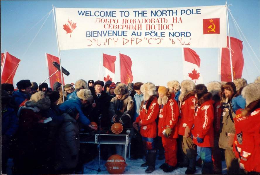 Welcome to the NorthPole, politicians and journalists at the North pole, to celebrate the half-way point of the Soviet-Canadian Ski-trek expedition